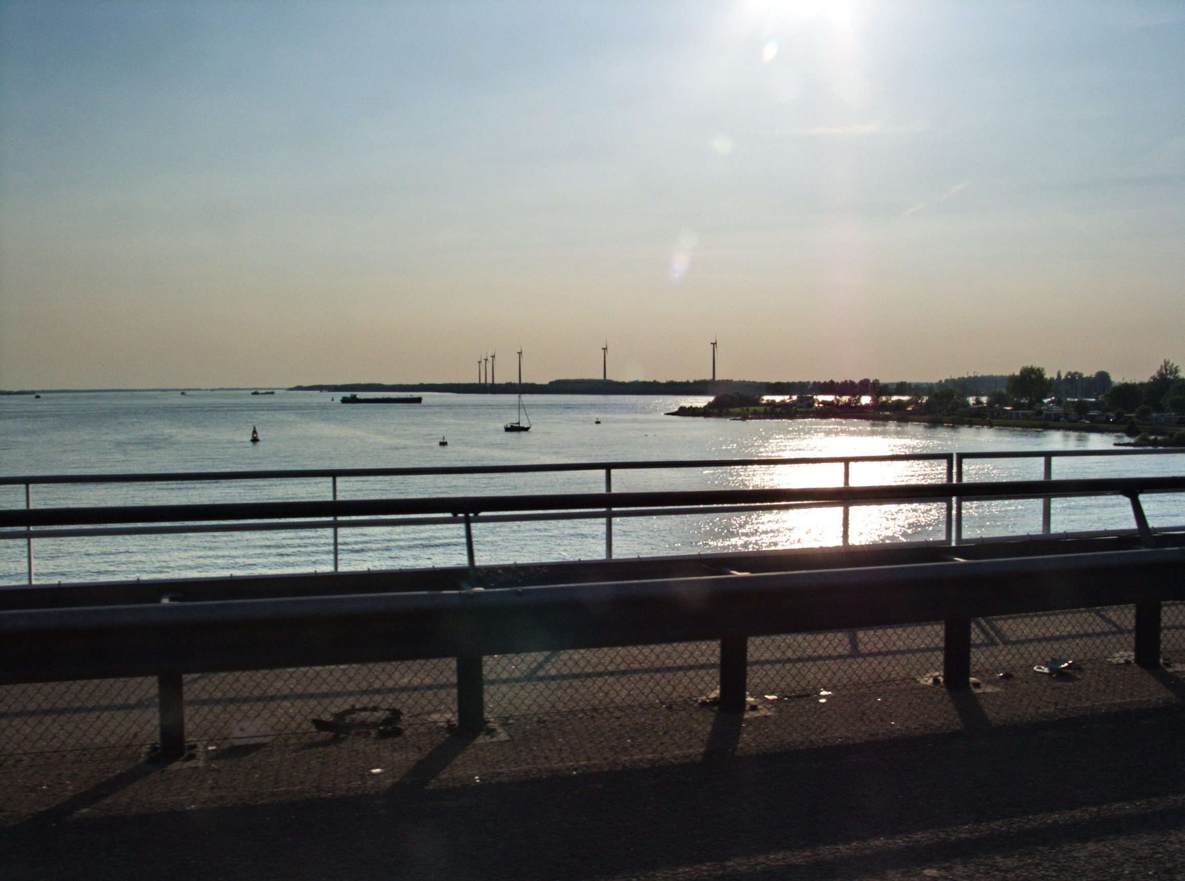 around holland